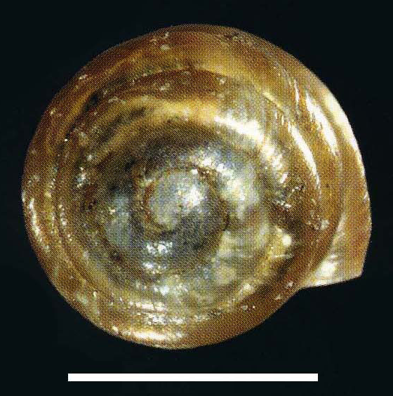 Photo of an apical view of a shell of a holotype of Vertigo ultimathule. Locality: Sweden, Lappland, Pältsan area, Gobmevari, SSE of Pältsastugan. Scale bar is 1 mm.